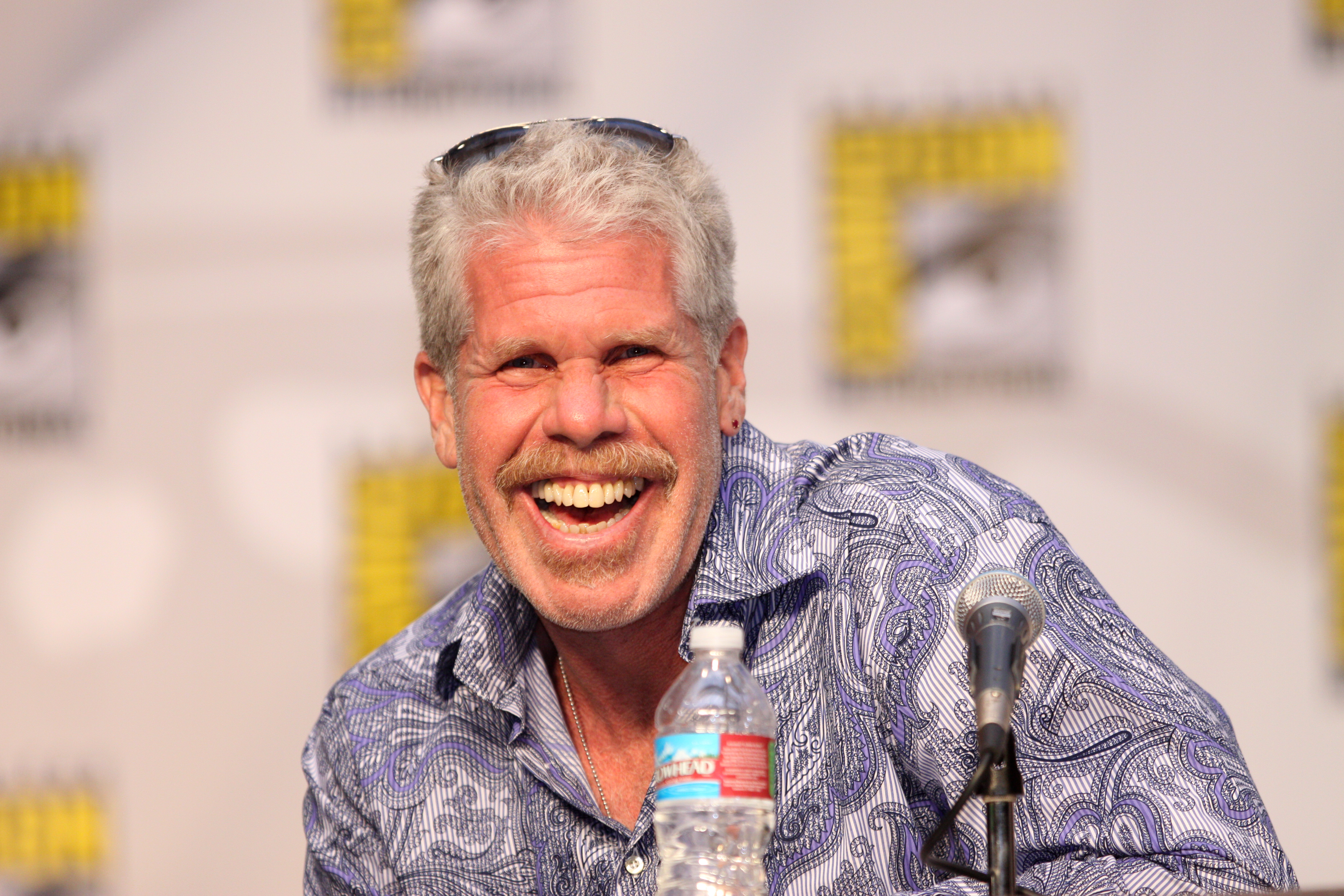 Actor Ron Perlman on the Sons of Anarchy panel at the 2010 San Diego Comic Con in San Diego, California.